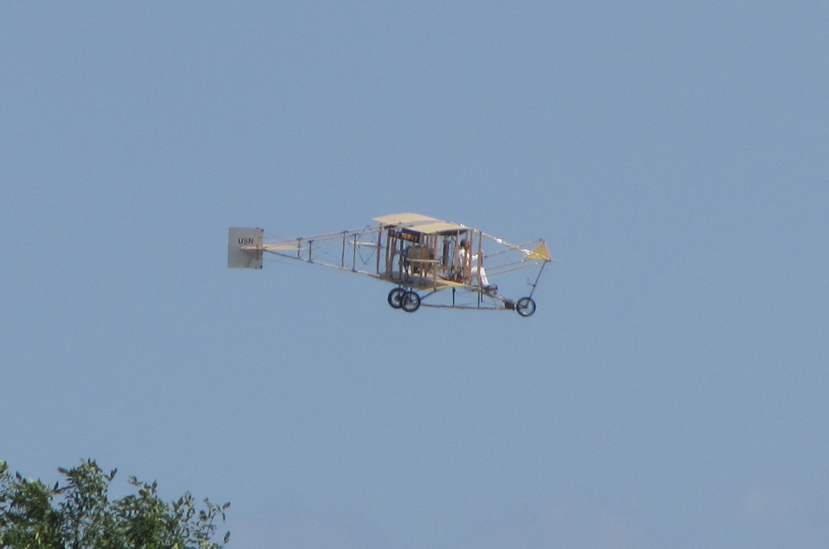 1911 Curtiss-Ely Pusher Replica